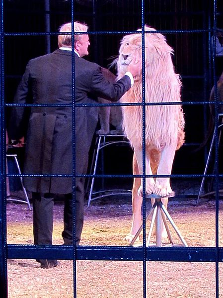 Jason Peters performs at the Hungarian National Circus.